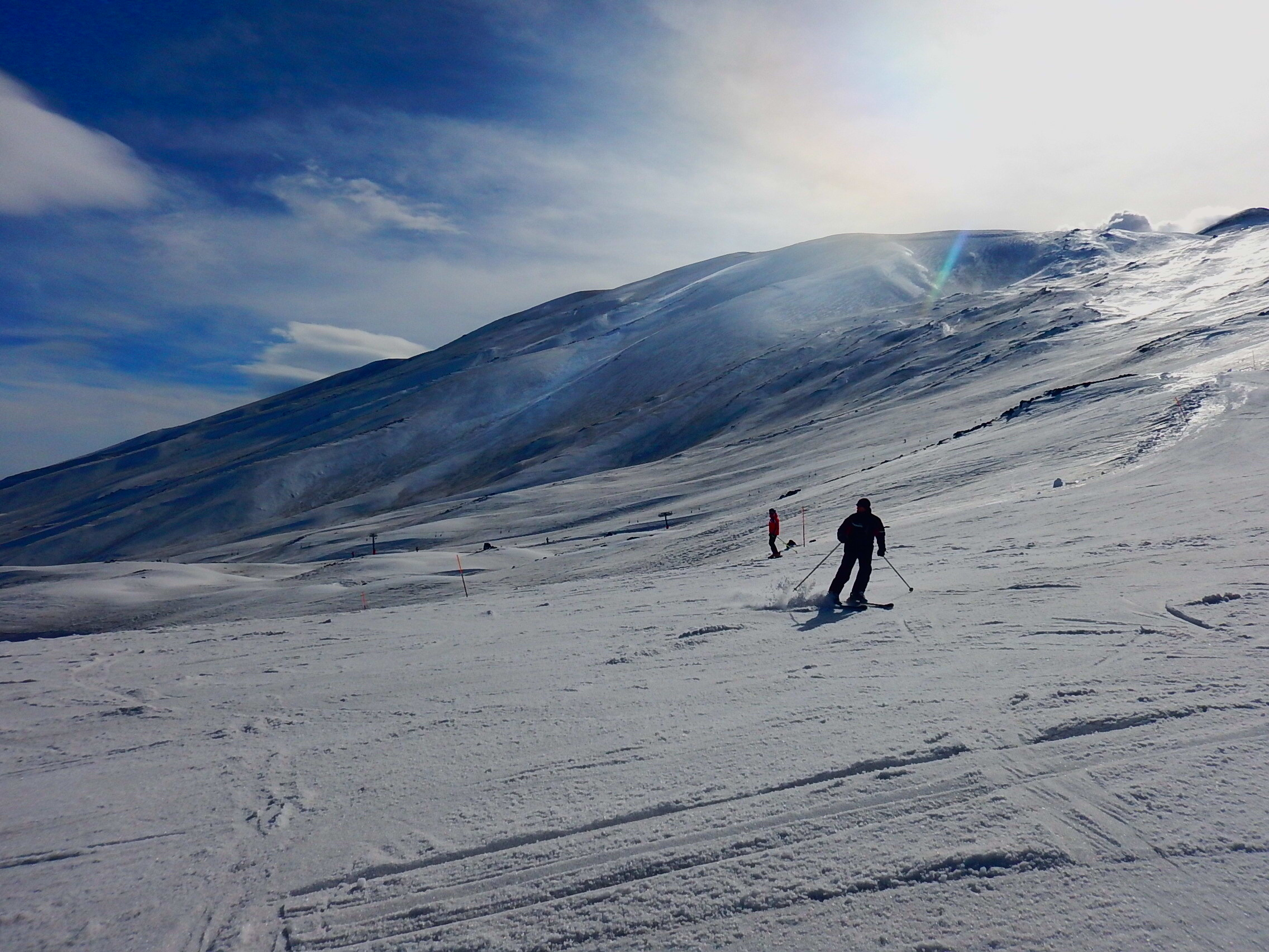 Etna nord linguaglossa is one of the two skiresorts of Etna volcano